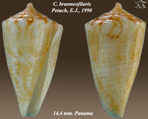 Conus brunneofilaris 1